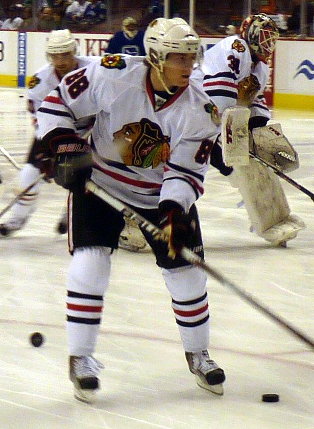 Chicago Blackhawks forward Patrick Kane during a game against the Vancouver Canucks at GM Place on November 22, 2009.